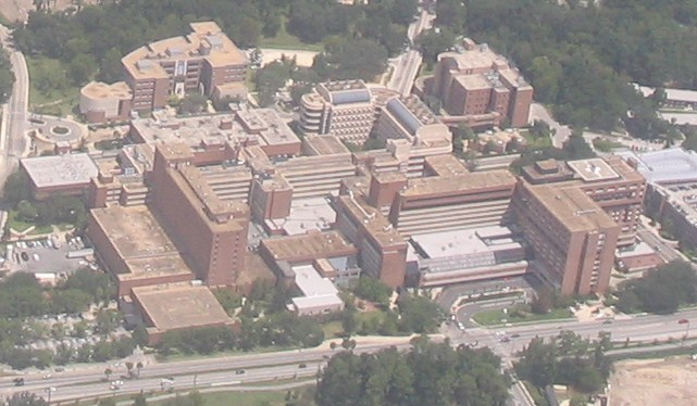 Cropped J. Hillis Miller Health Science Center picture out of total UF campus